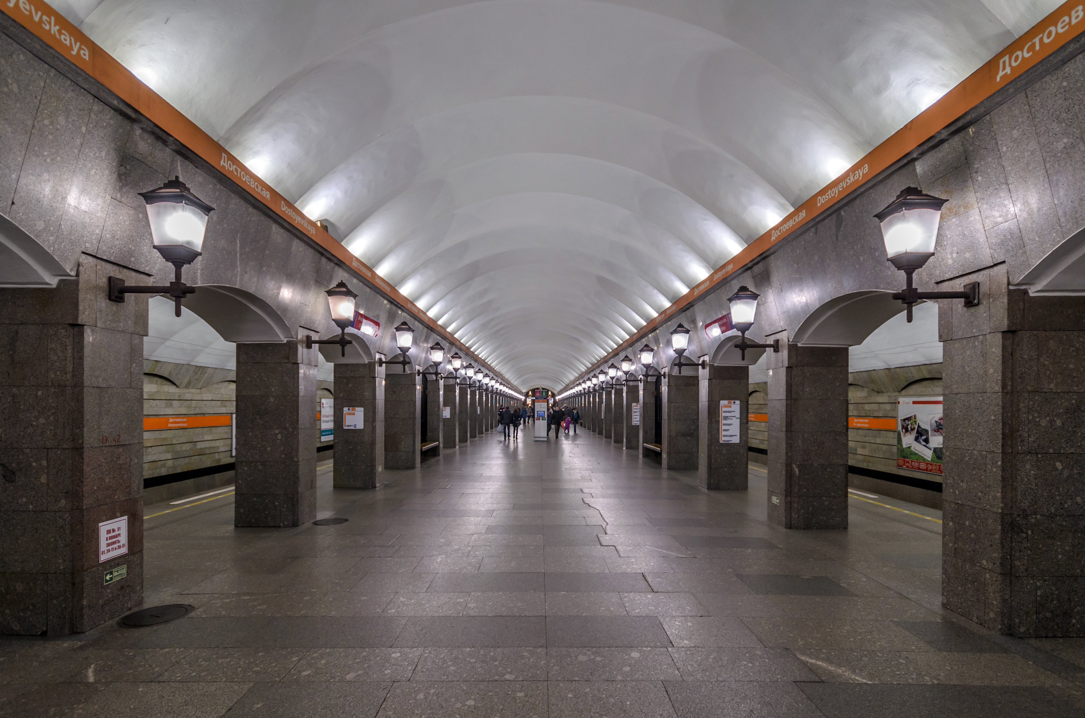 Dostoevskaya station of Saint Petersburg Metro